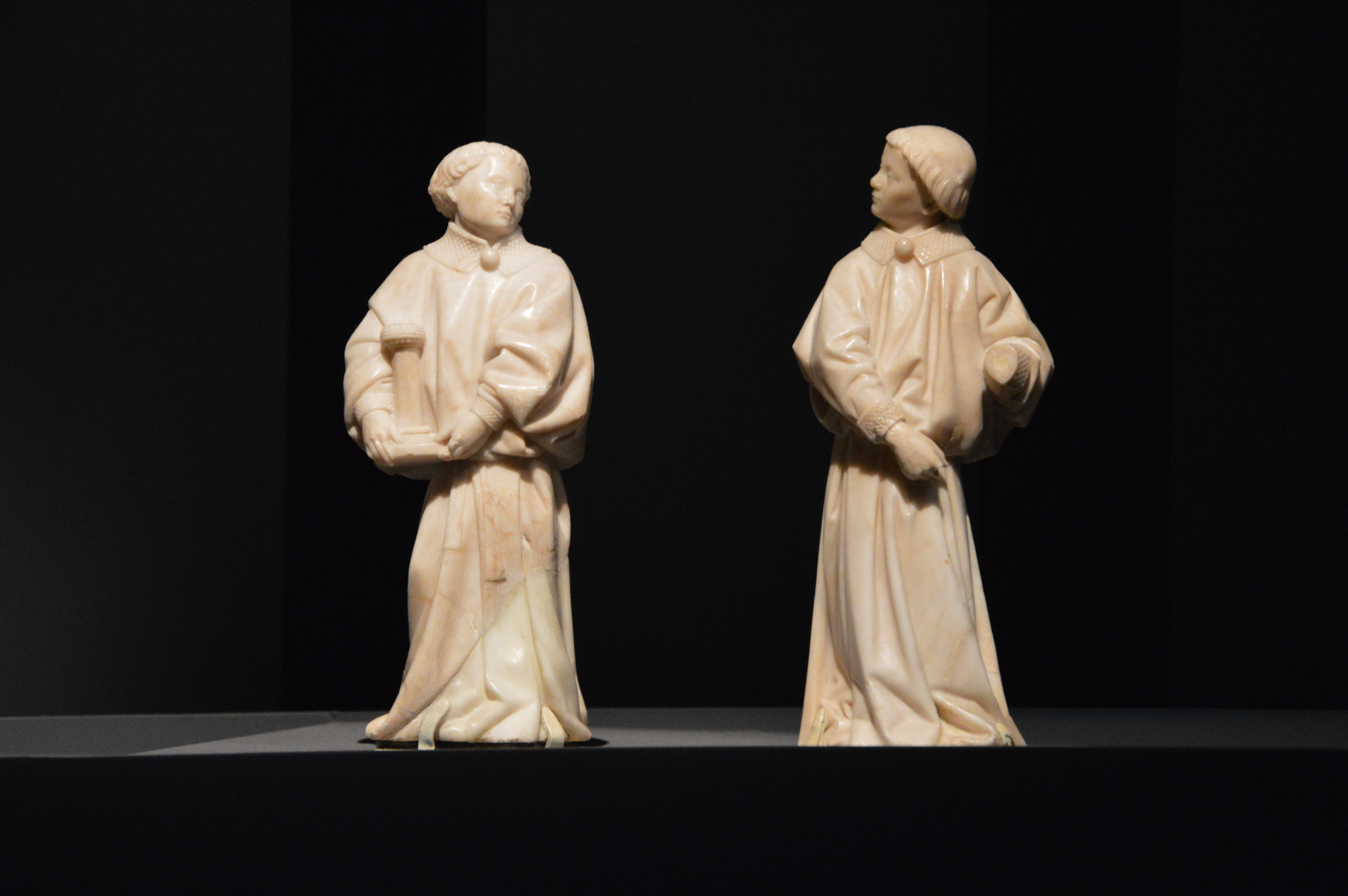 Choir boys from the Mourners from the tomb of John the Fearless - Jean sans Peur. No 42a and 42b